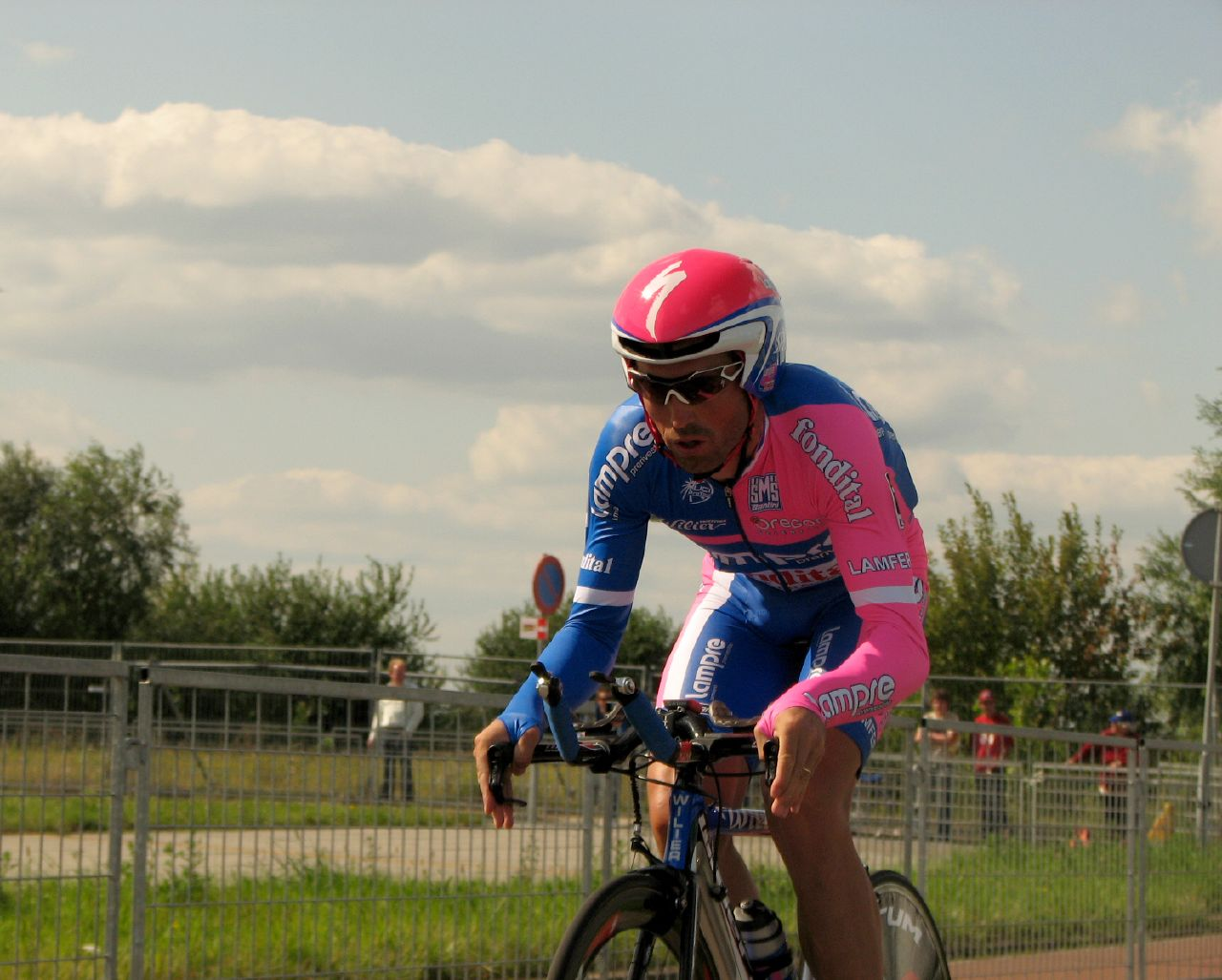 Daniele Righi, time trial of the 2007 Eneco Tour time trial, Sittard-Geleen